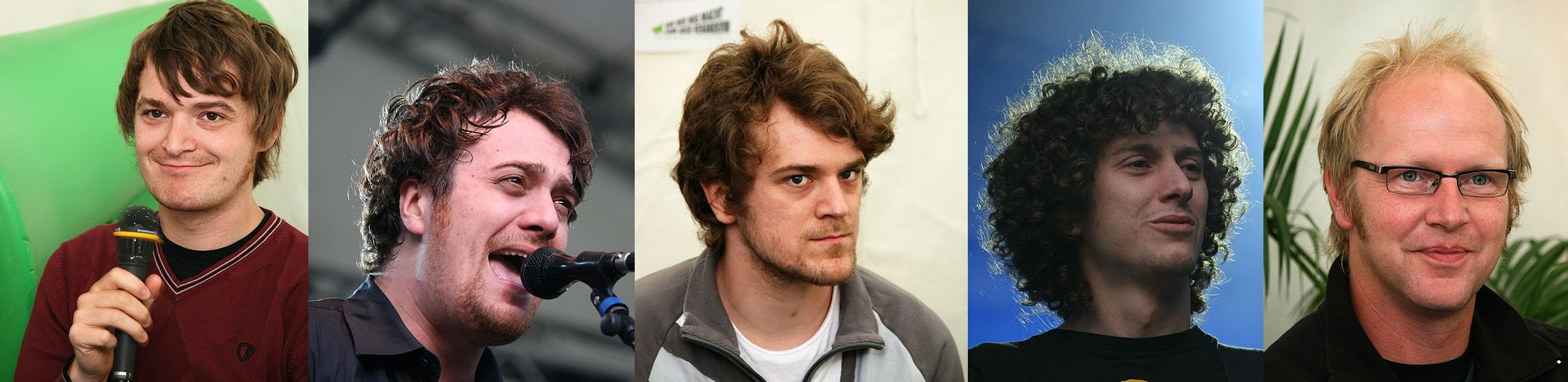 Taken from: File:Madsen Sebastian Madsen 2008 01.jpg File:Madsen Johannes Madsen 2008 02.jpg File:Madsen Sascha Madsen 2008 01.jpg File:Madsen Niko Maurer 2008 02.jpg File:Madsen Folkert Jahnke 2008 01.jpg